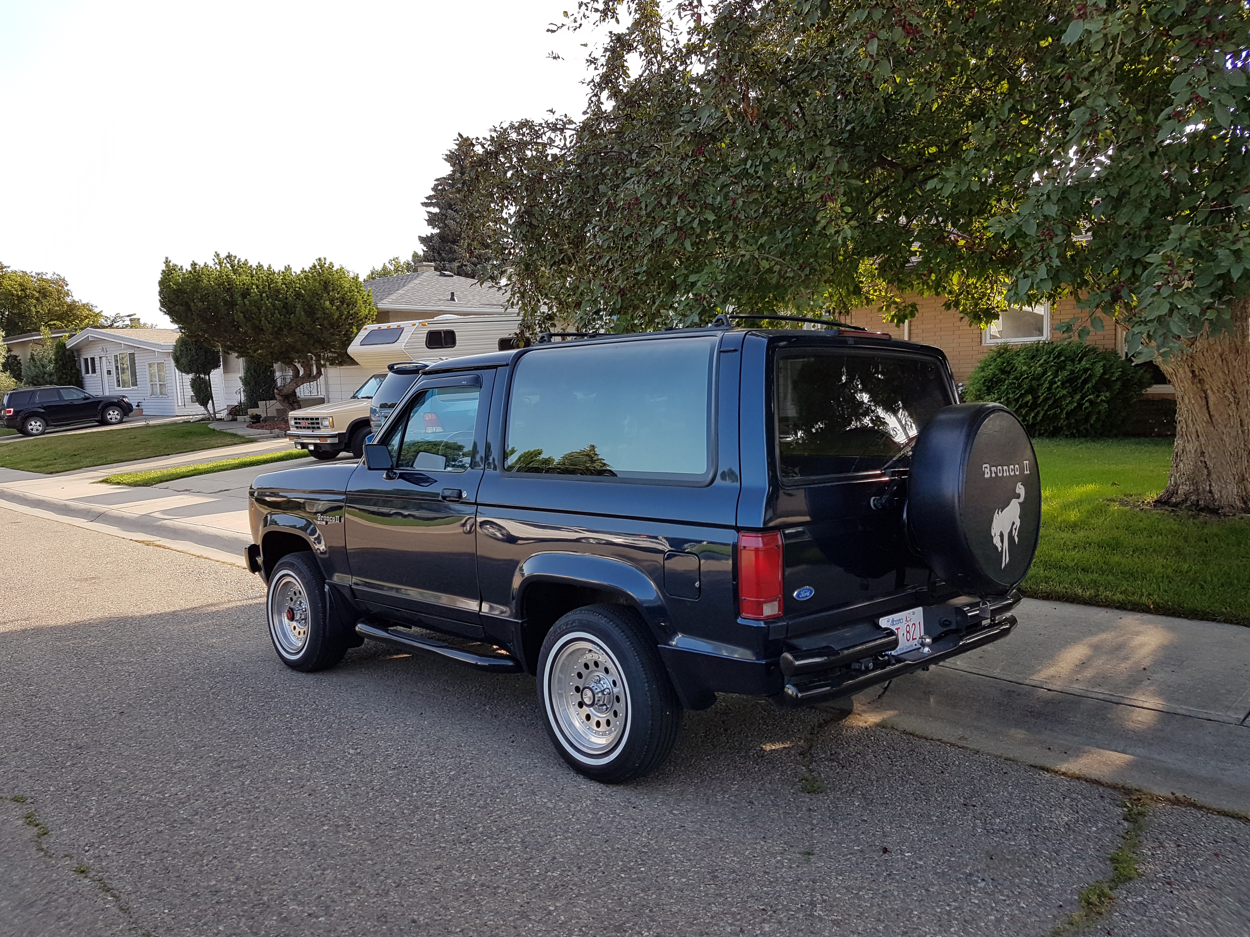 Early Ford Bronco II in fantastic condition. Rare sight these days.